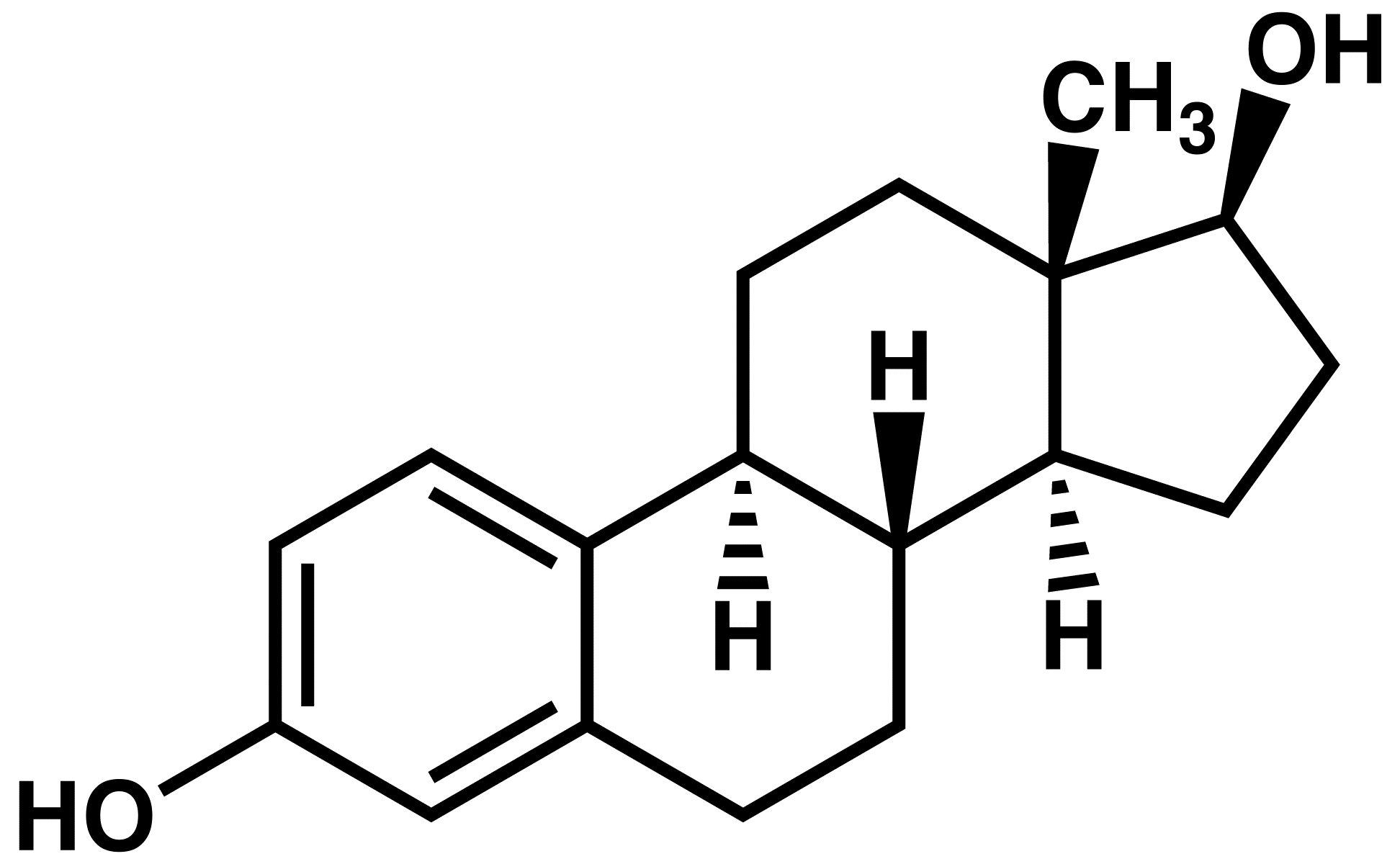 Created myself using Cambridgesoft ChemDraw